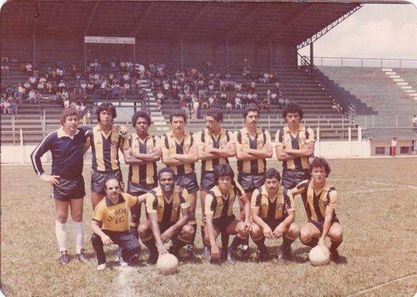 Aurora FC